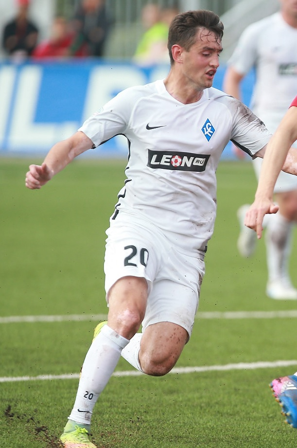 Srđan Mijailović with FC Krylia Sovetov Samara in a game against FC Spartak-2 Moscow.